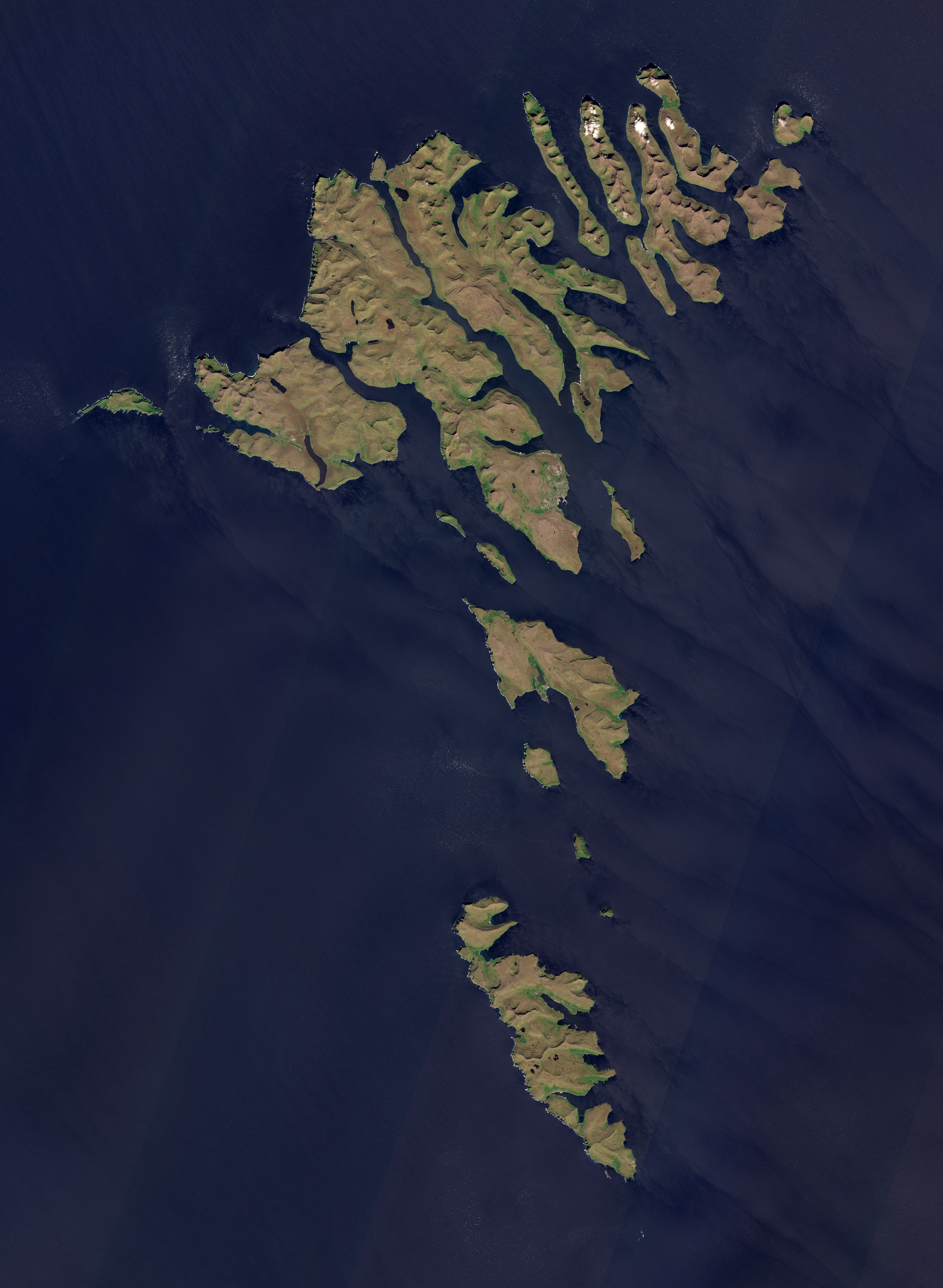 Date: 2018-06-21 Sensor: MSI on Sentinel-2A Resolution: 20m (Downsampled) RGB Composites: True color, Band 4-3-2